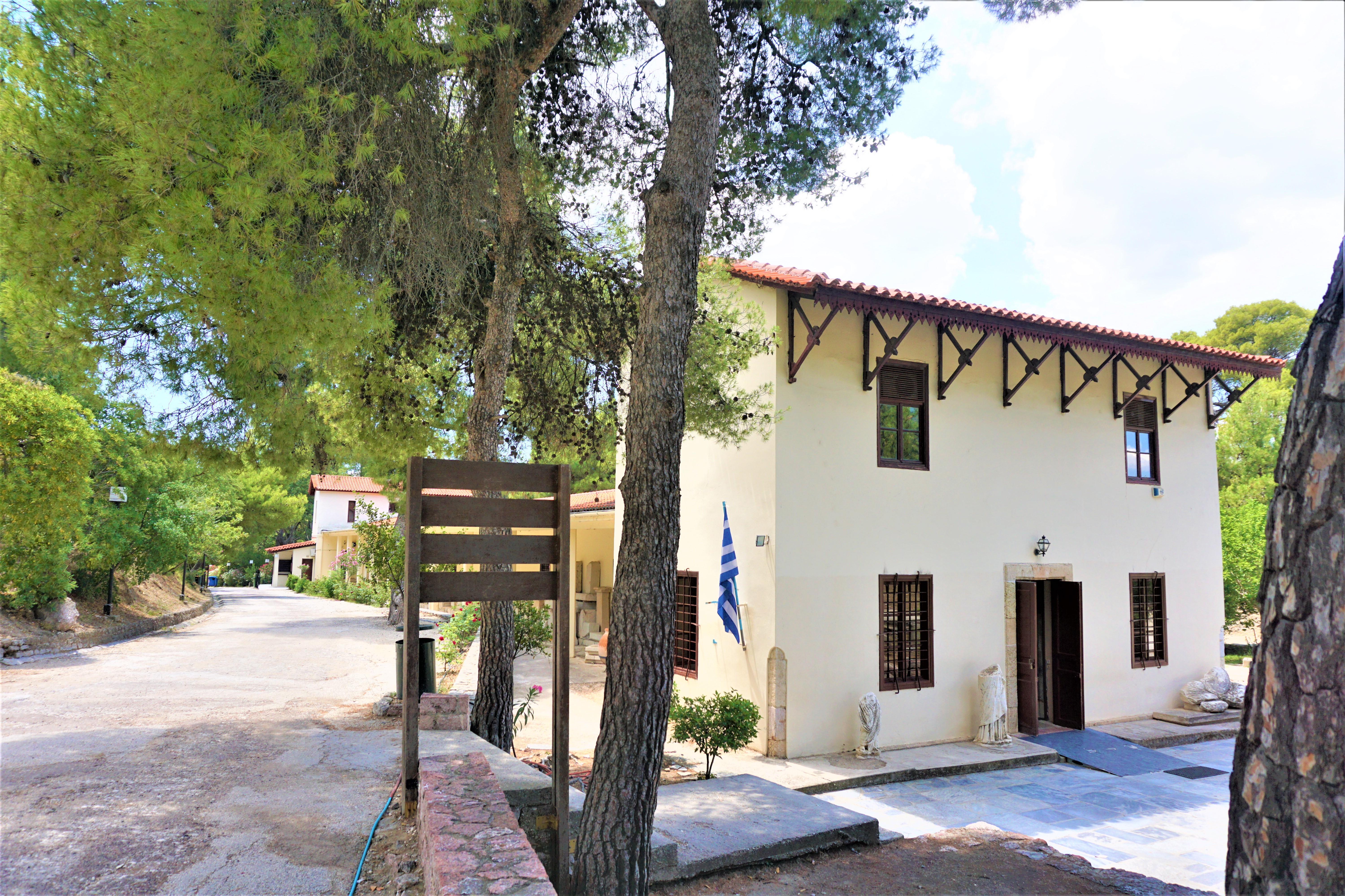 Archaeological Museum of Epidaurus by Joy of Museums, for information